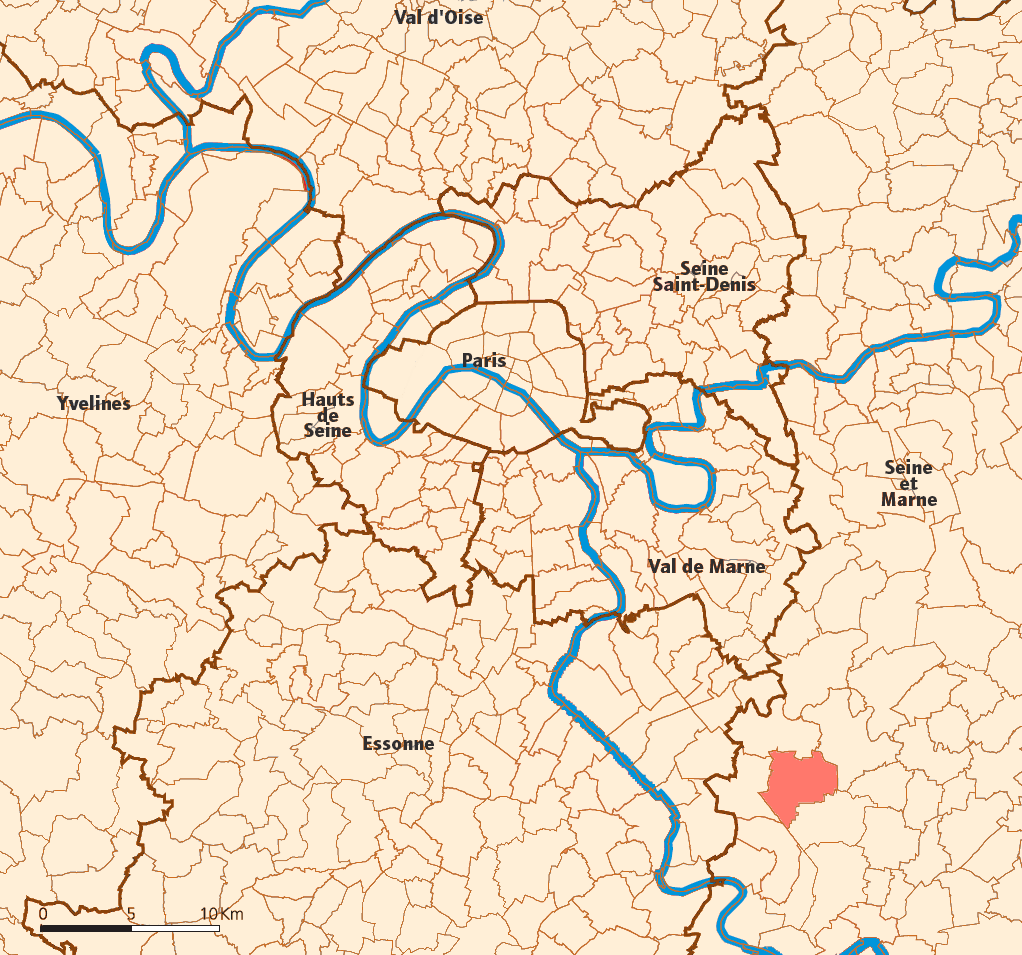 Created map myself